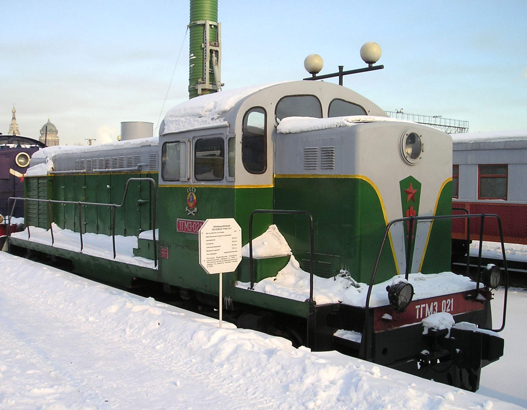 The exhibit of the open-air railway museum in former Varshavsky terminal in Saint-Petersburg, Russia. Industrial diesel locomotive TGM3 021